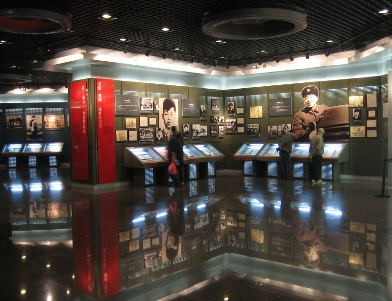 Inside the Lei Feng Museum located in Fushun, Liaoning